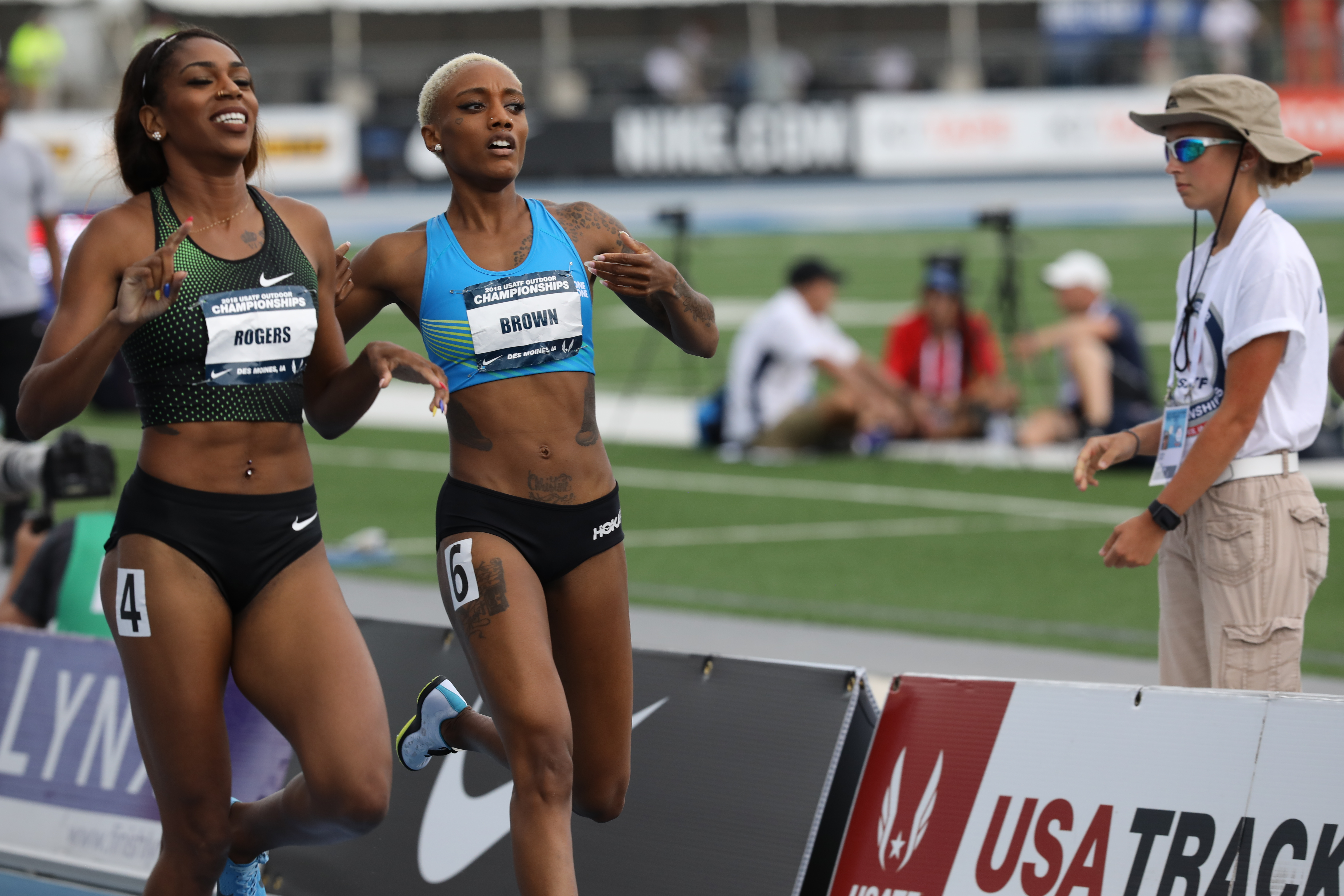 Ajee Wilson at USTAF in 2018 Raevyn Rogers